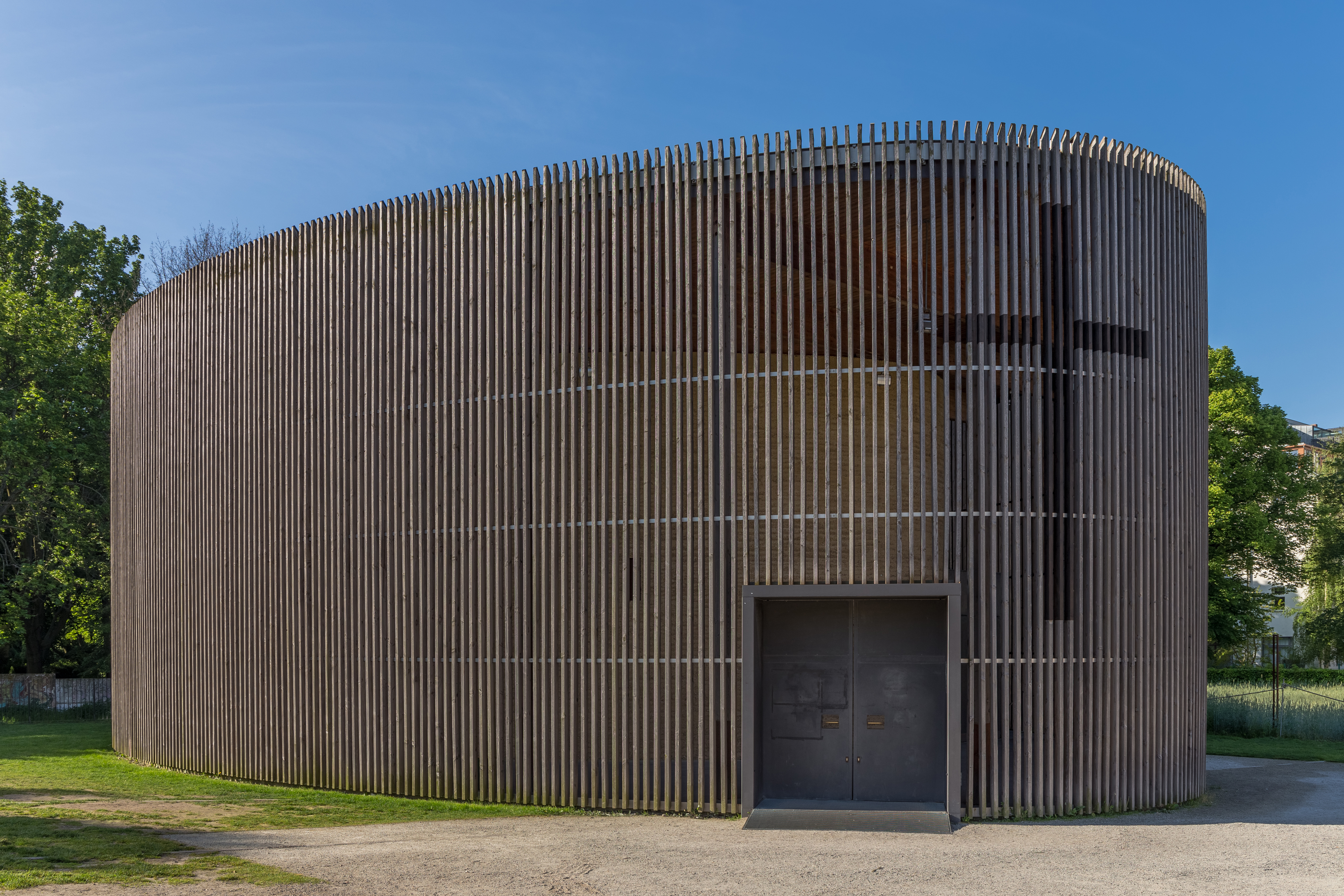 The Chapel of Reconciliation on the grounds of the Berlin Wall Memorial at Bernauer Strasse in Berlin. The chapel was designed by the architects Peter Sassenroth and Rudolf Reitermann and inaugurated on 9 November 2000.